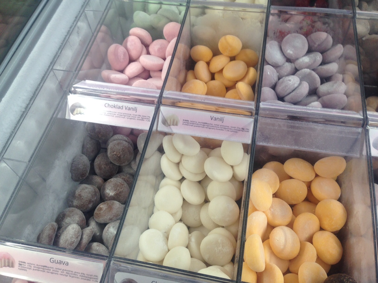 Mochi ice cream from Bubbies. Signs in Swedish. Taken at Gothenburgh's Kulturkalaset 2015.